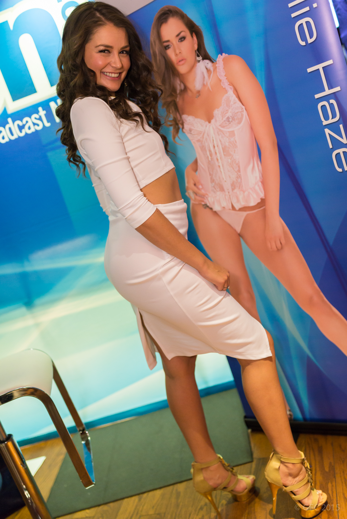 Allie Haze at the AVN Adult Entertainment Expo in Las Vegas on January 22, 2015